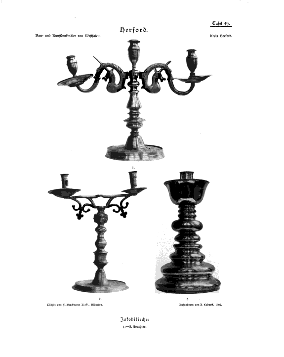 Pages from 1908 book series Bau- und Kunstdenkmäler von Westfalen (